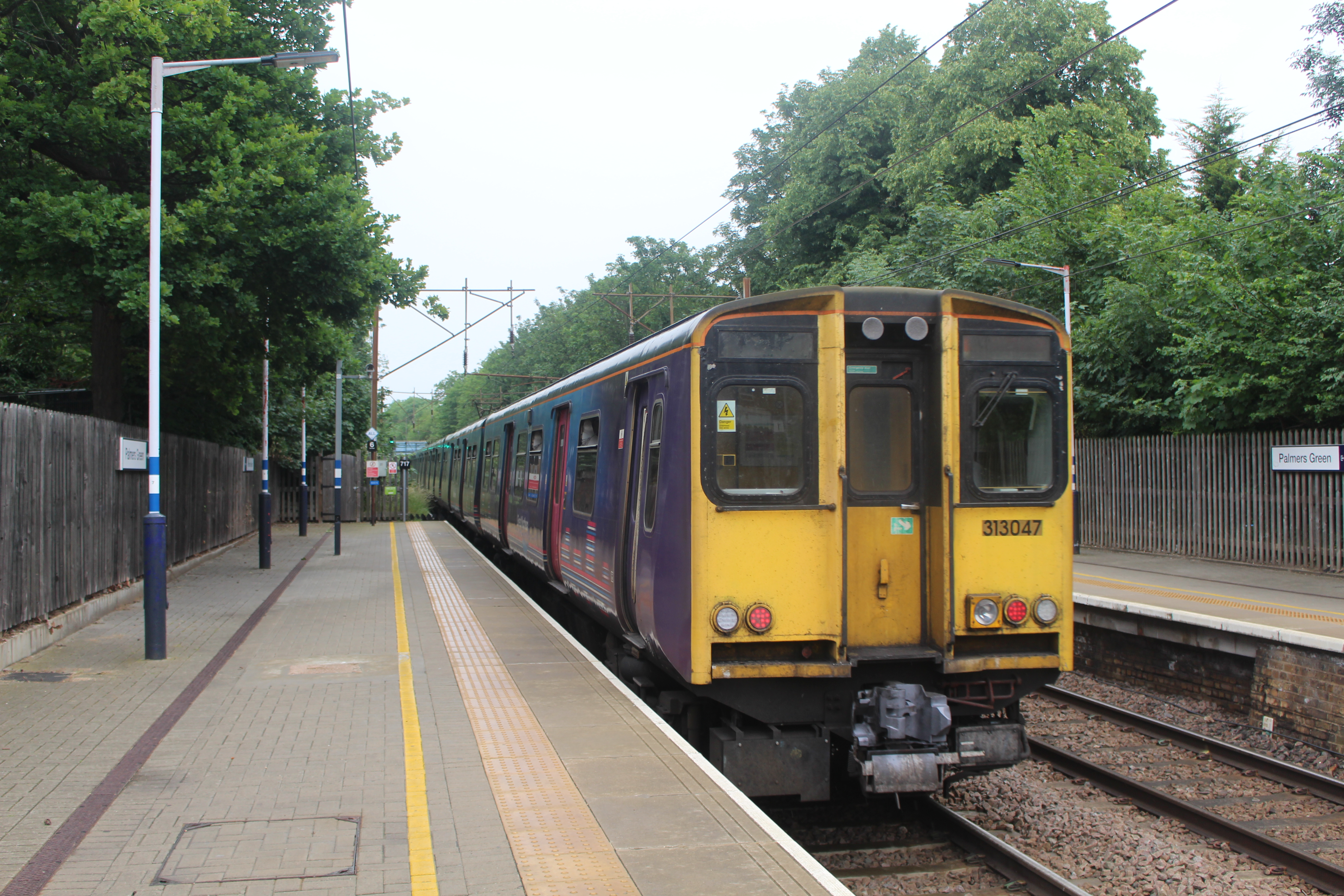 A train.